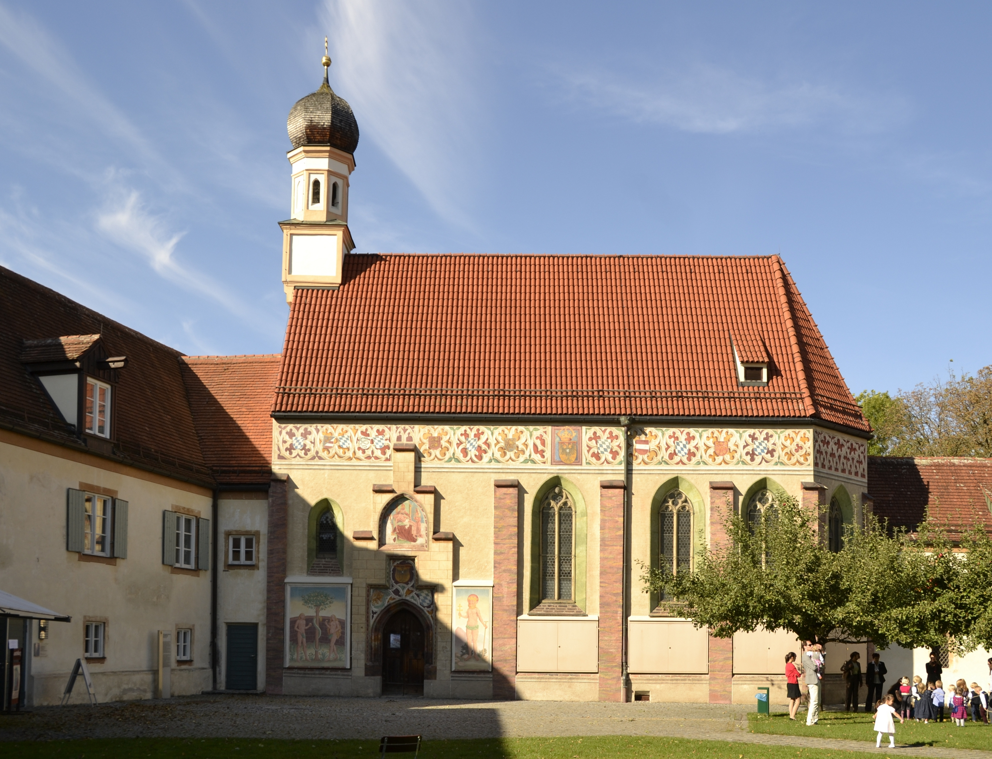 The chapel of the Castle Blutenburg in Munich.